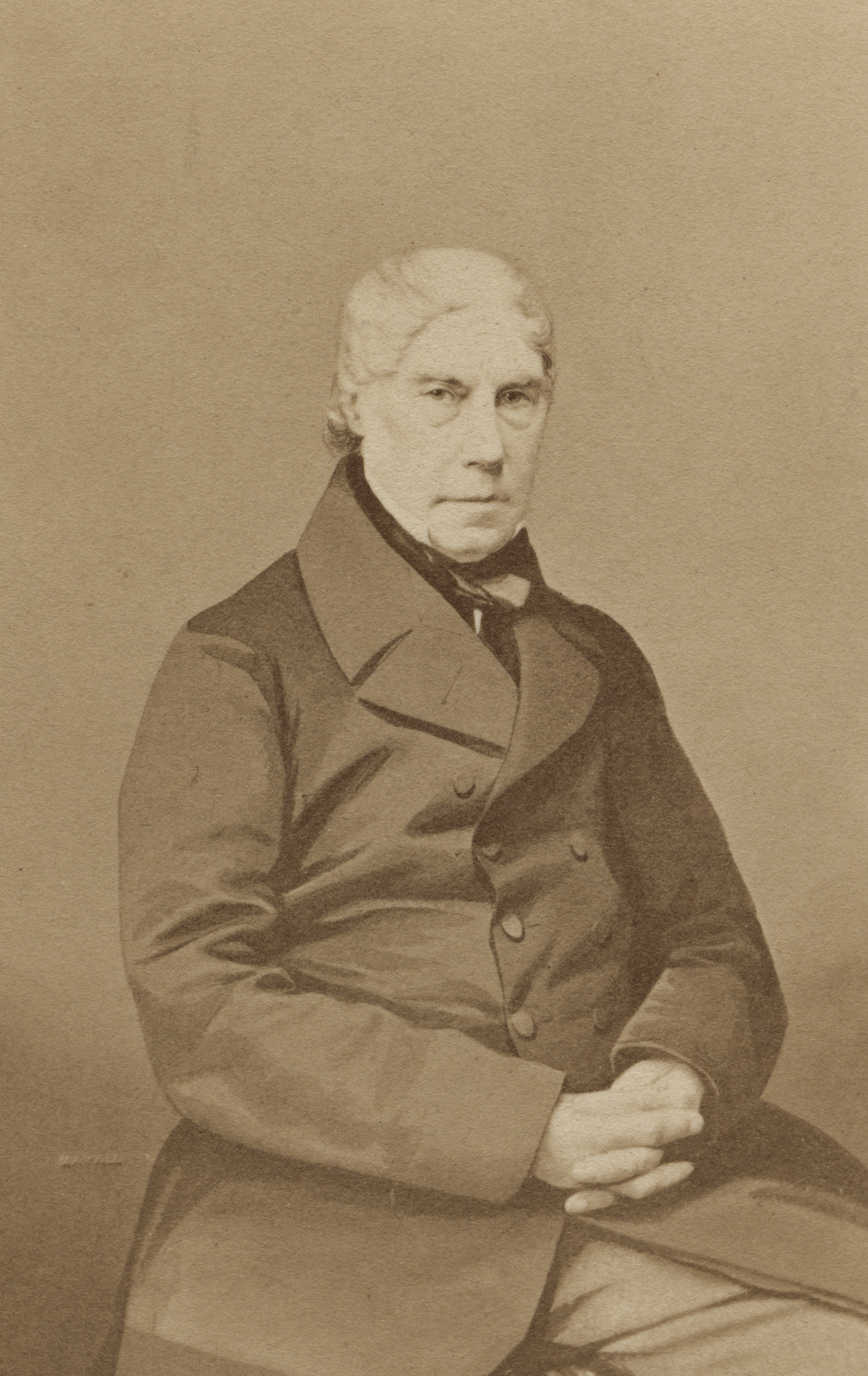 Depicted person: George Hamilton-Gordon, 4th Earl of Aberdeen – British politician